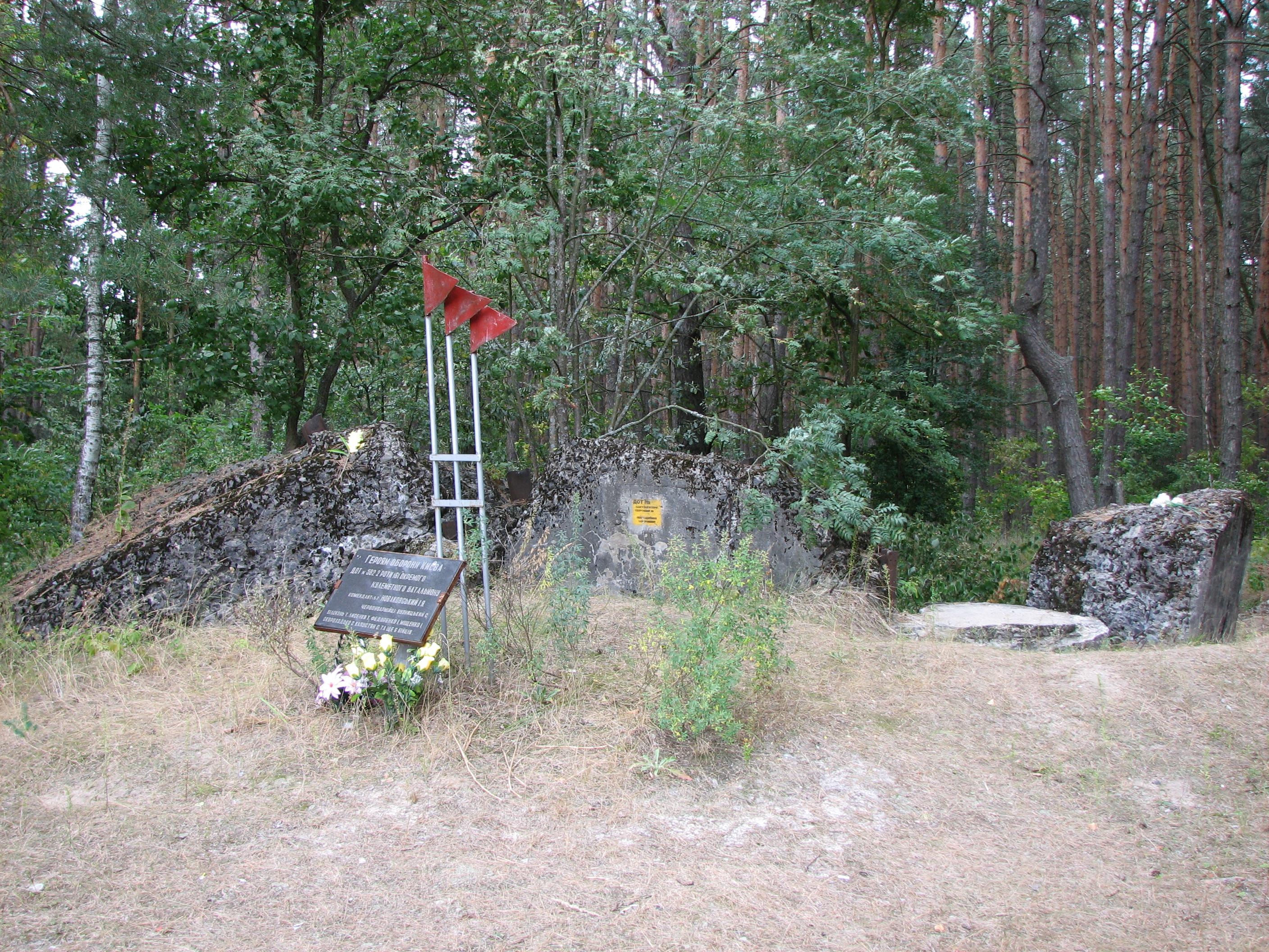 Pillbox 582 (Kyiv Fortified Region)